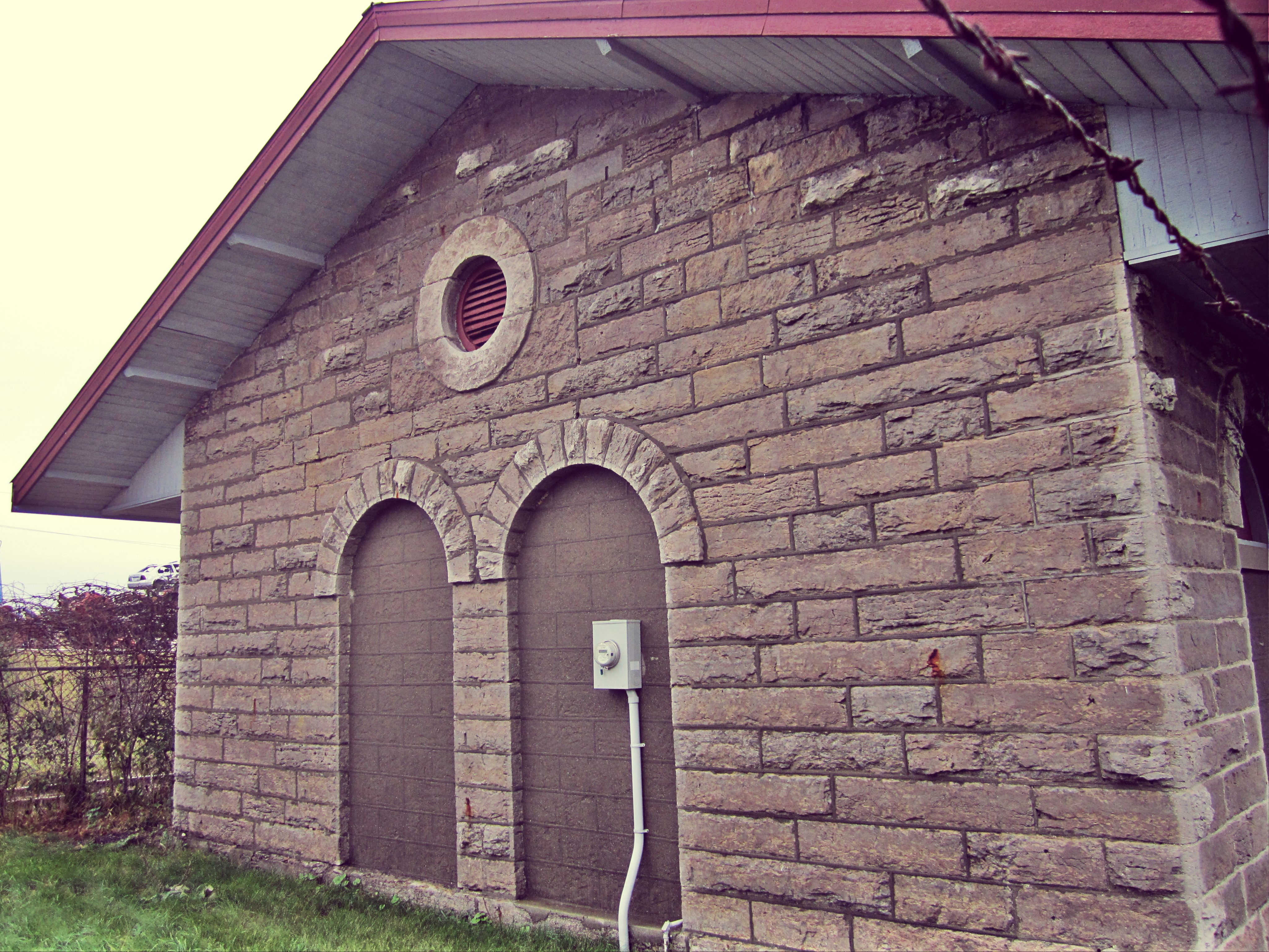 One of the very few stations in Ontario that are preserved in original shape